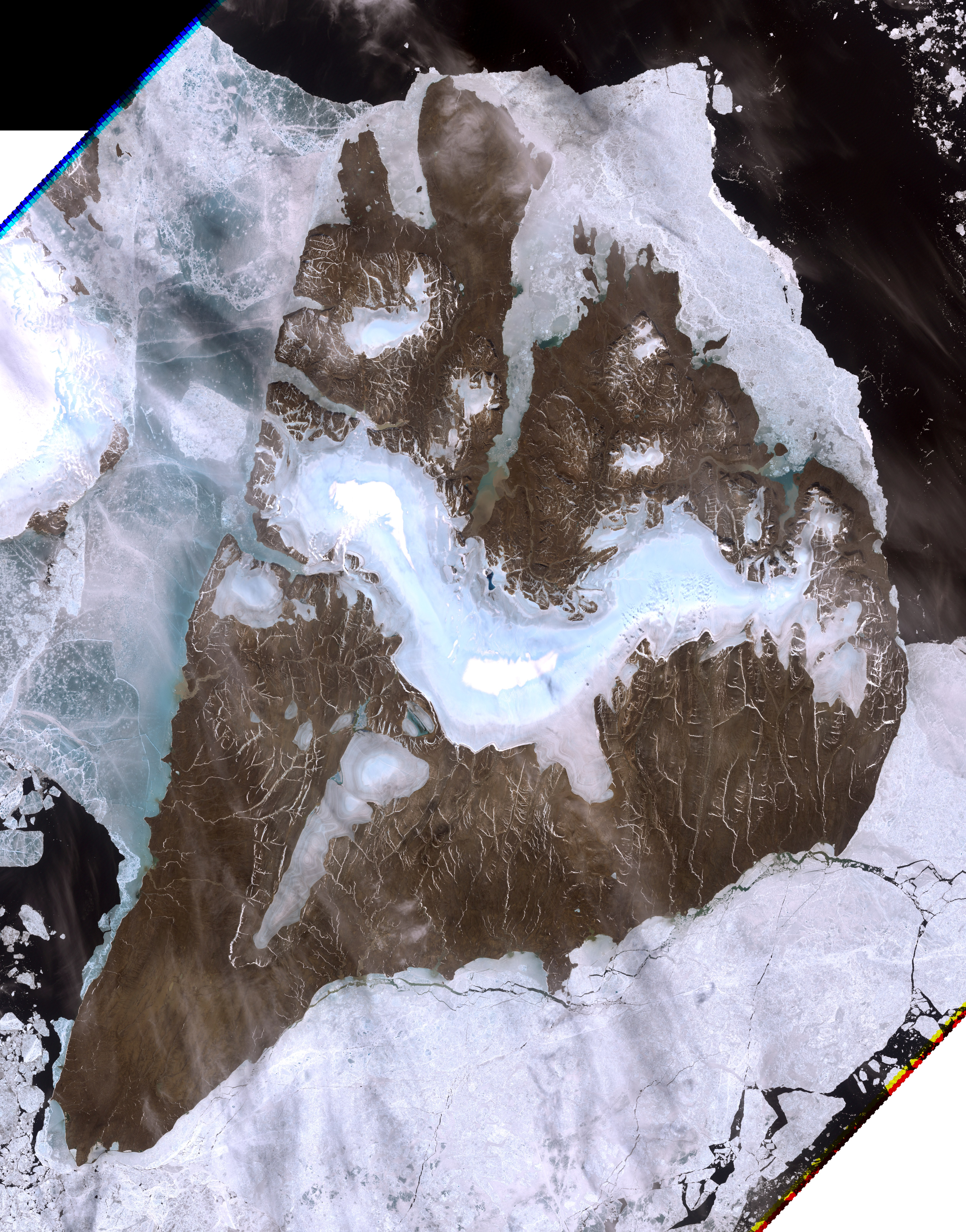 Bolshevik island, Russia, Landsat-7 near natural image, 30 m resolution